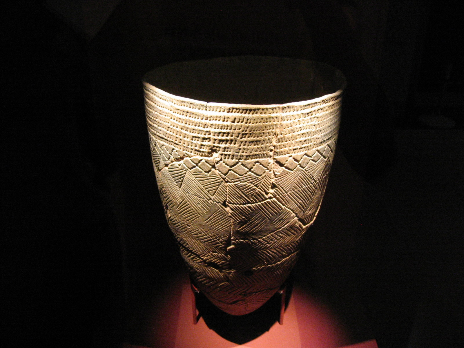 A neolithic period pot from Korea. Category:History of Korea